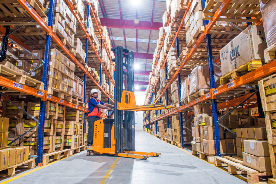 Gati courier's warehouse and their supply chain management